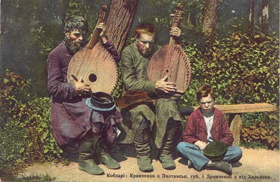 Kobzars: Kravchenko of Poltava guberniya and Dremchenko of Kharkov guberniya